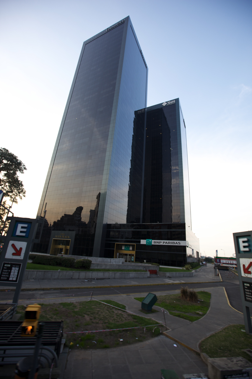 Southern section of the Catalinas Norte office park, in the Retiro section of Buenos Aires, Argentina.